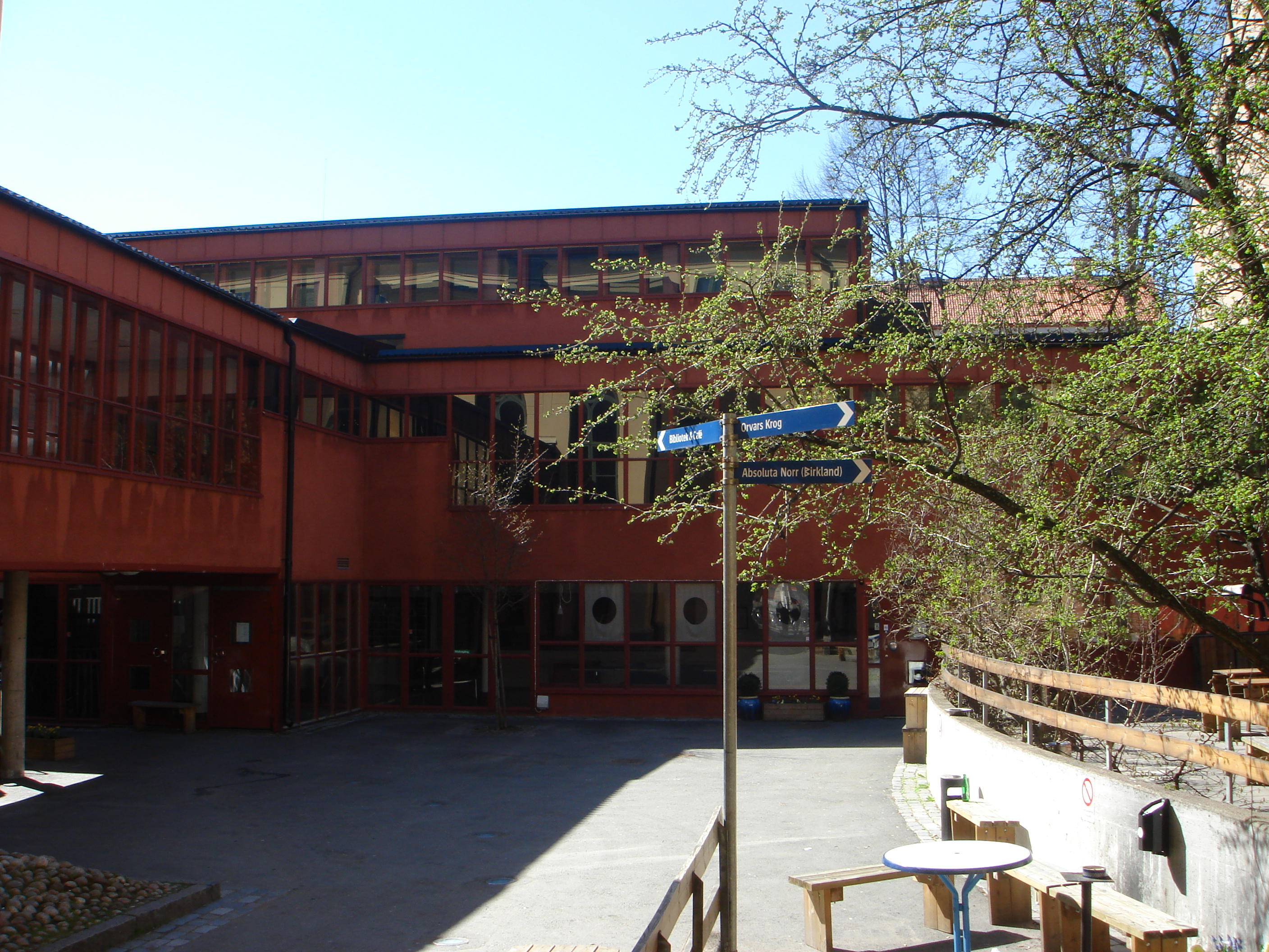 Photo of Nya huset at norrlands nation, Uppsala.